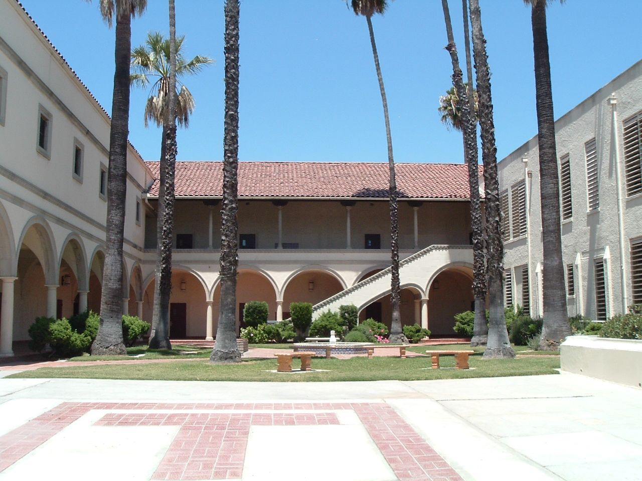 Courtyard and patio of the Main Building at Torrance High School, located in Torrance, southwestern Los Angeles County, California. The 1917 Mediterranean Revival style building and Spanish Colonial Revival style courtyard are on the National Register of Historic Places in Los Angeles County. "The courtyard of 'Sunnydale High School' is familiar to fans of Buffy the Vampire Slayer (TV series). I think the weirdest part for me was realizing how scarily well-recreated this is in the Buffy the Vampire Slayer video game for Xbox."